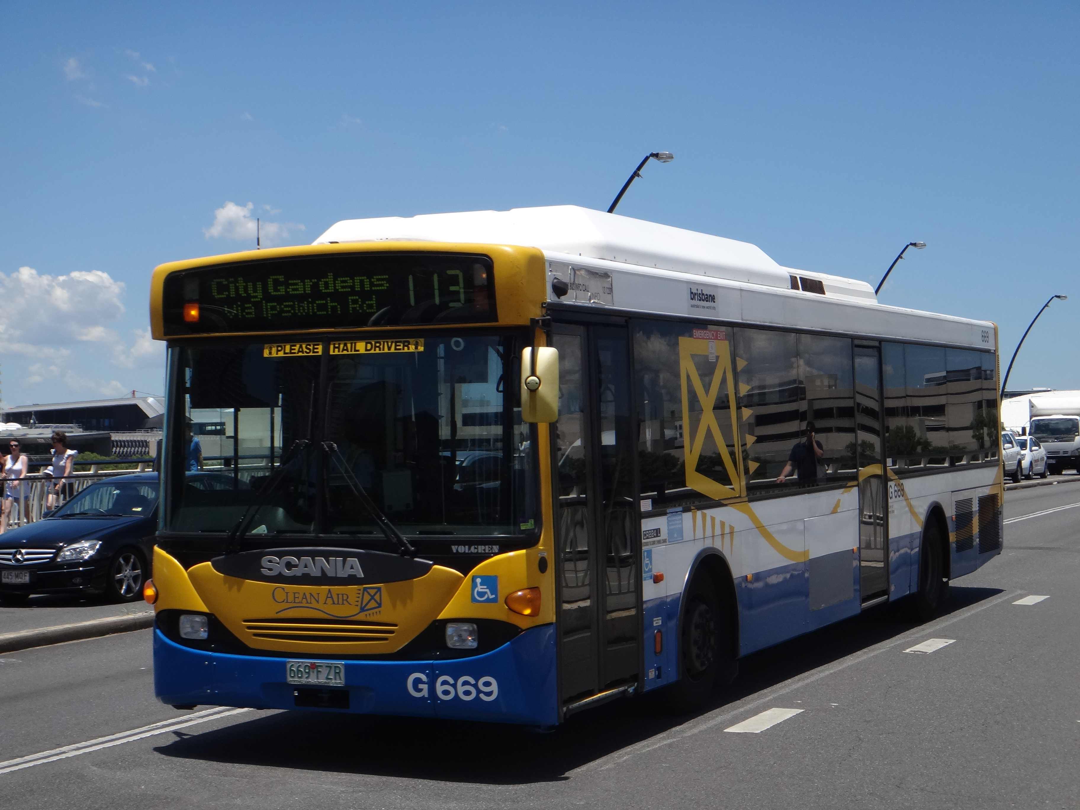 Volgren CR224 bodied Scania L94UB CNG operating for Brisbane Transport